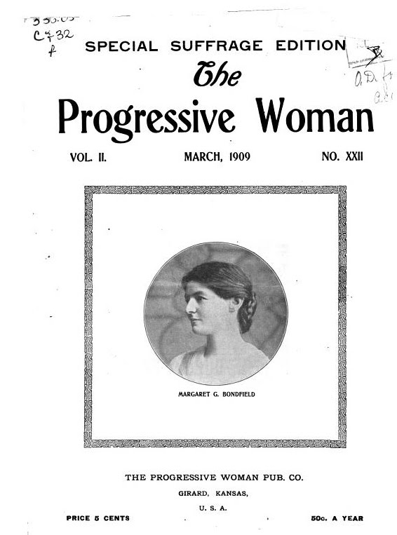 The Progressive Woman magazine cover, March 1909, featuring British Labour politician Margaret Bondfield.